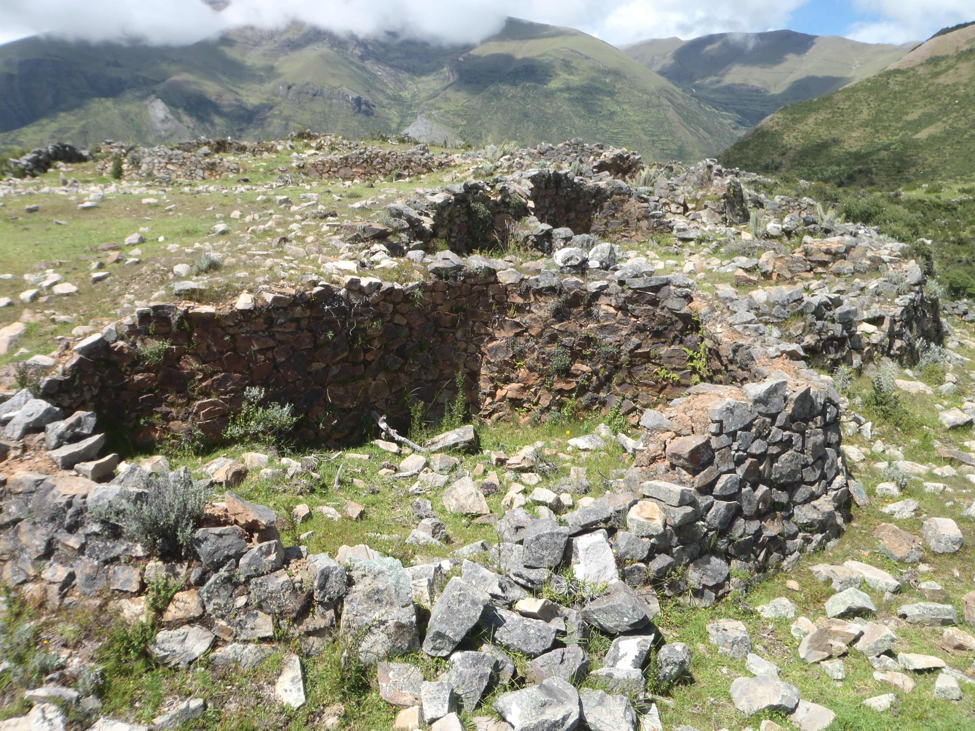 Yanaca is a pre-inca ruins group situated in Peru, Apurimac region, Yanaca district. Tunay Kassa is one of these ancient village, situated at 4 km from Yanaca village. This picture represents Tunay’houses.